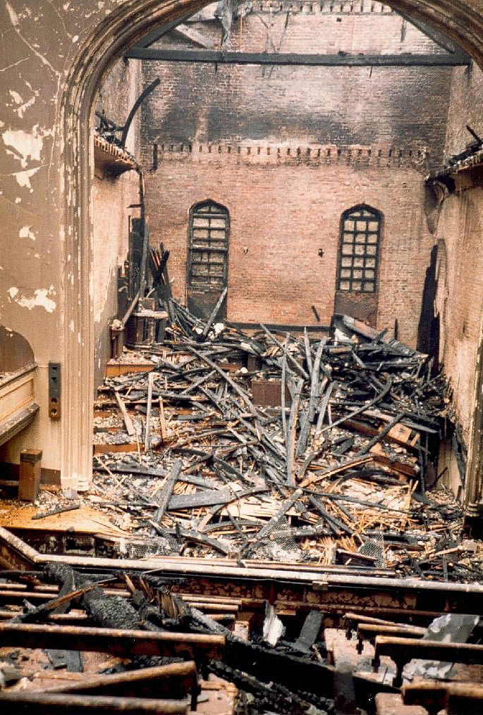 Liverpool Collegiate School hall, fire-damaged in 1985.